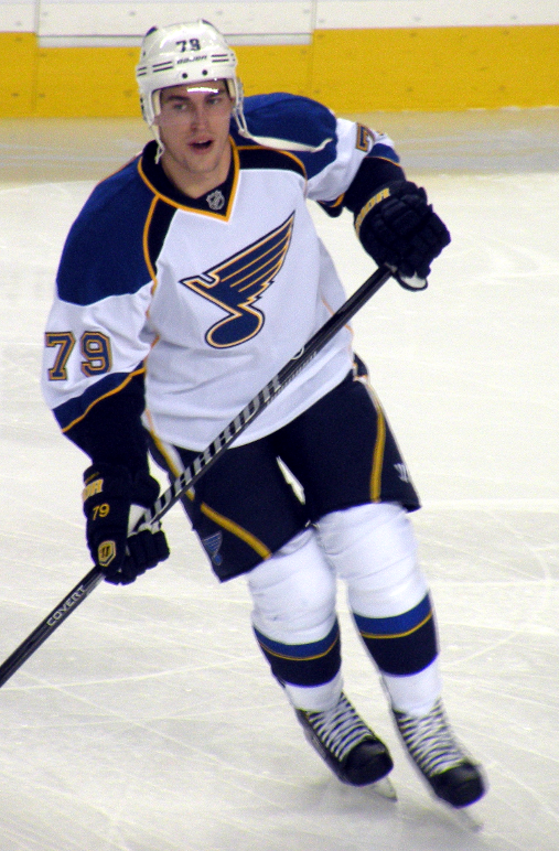 St. Louis Blues forward Adam Cracknell prior to a National Hockey League Game in Calgary